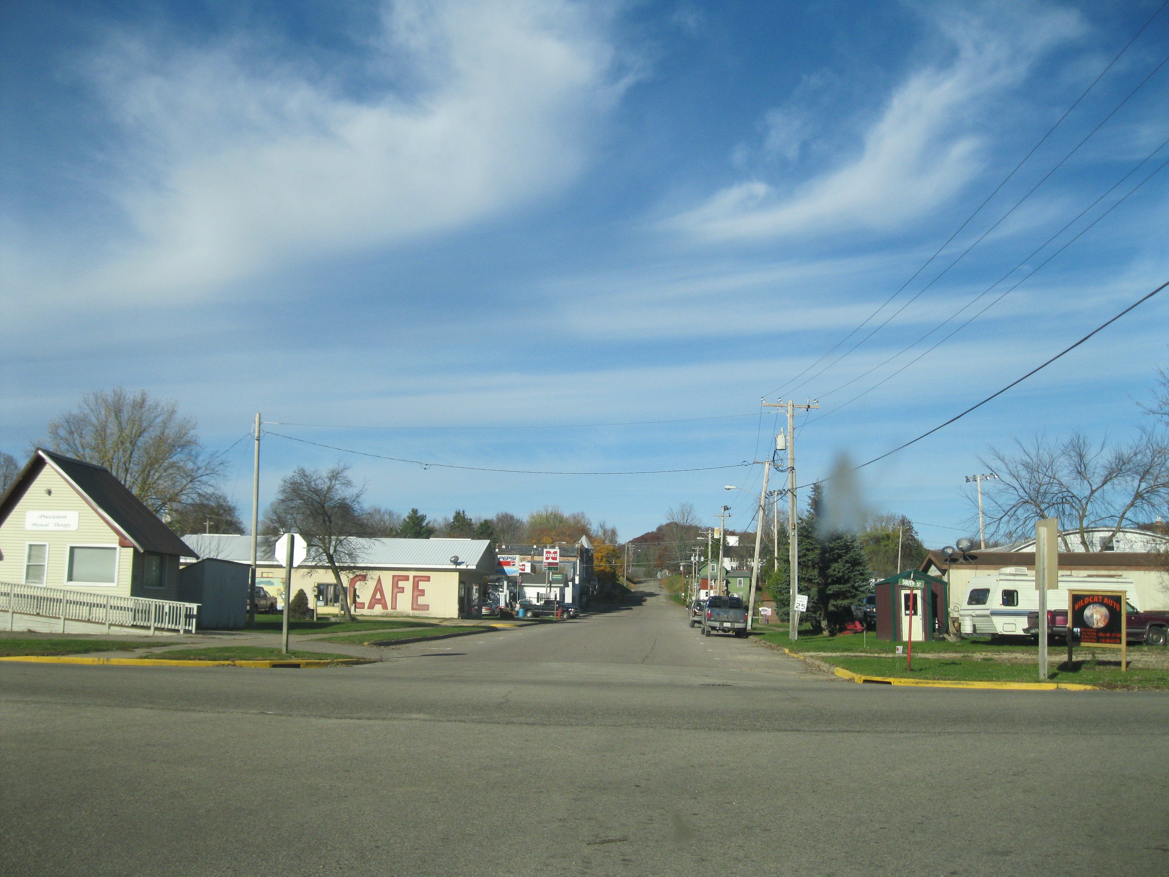 A commercial district in Ontario, Wisconsin.